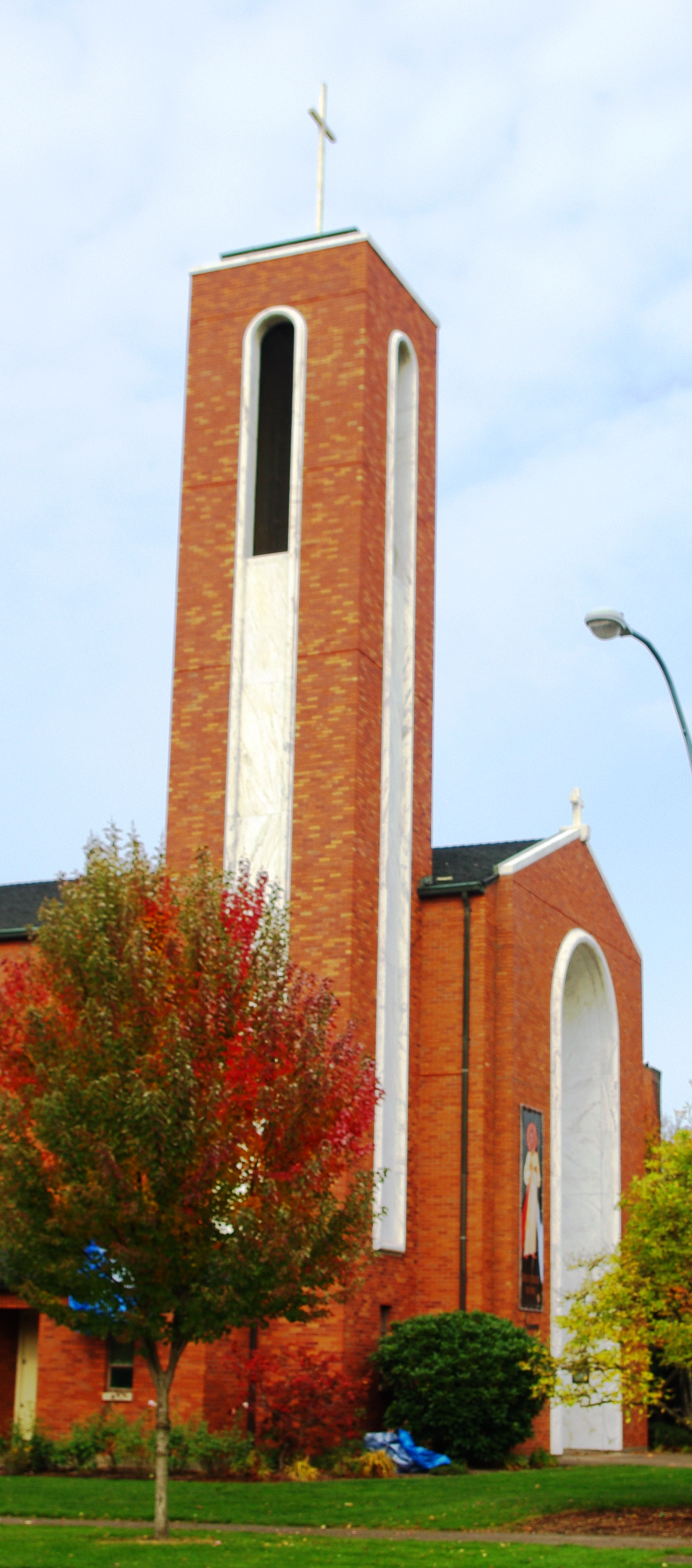 St. Joseph's Catholic Church steeple, in Salem, Oregon, USA.